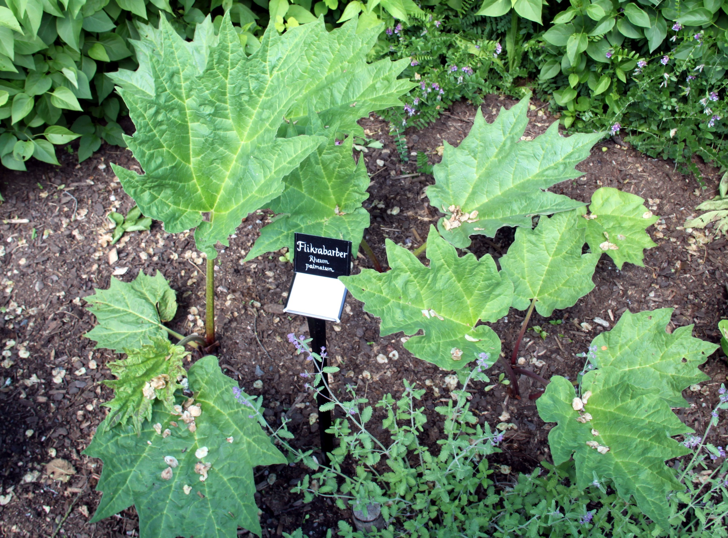 Rheum palmatum in Skansen, Stockholm.